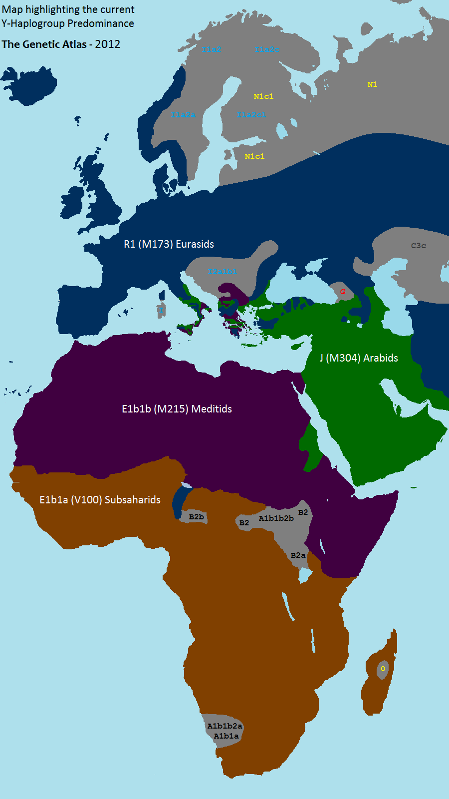 Map highlighting the current Y-haplogroup Predominance (ref. Genetic Atlas)